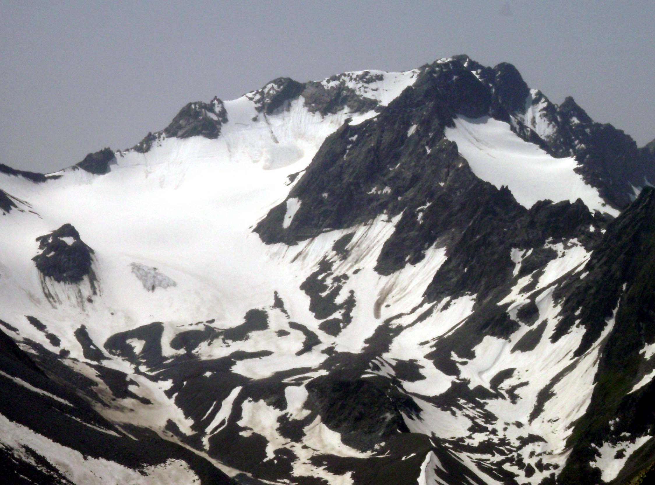 Längentaler Weißenkogel from north